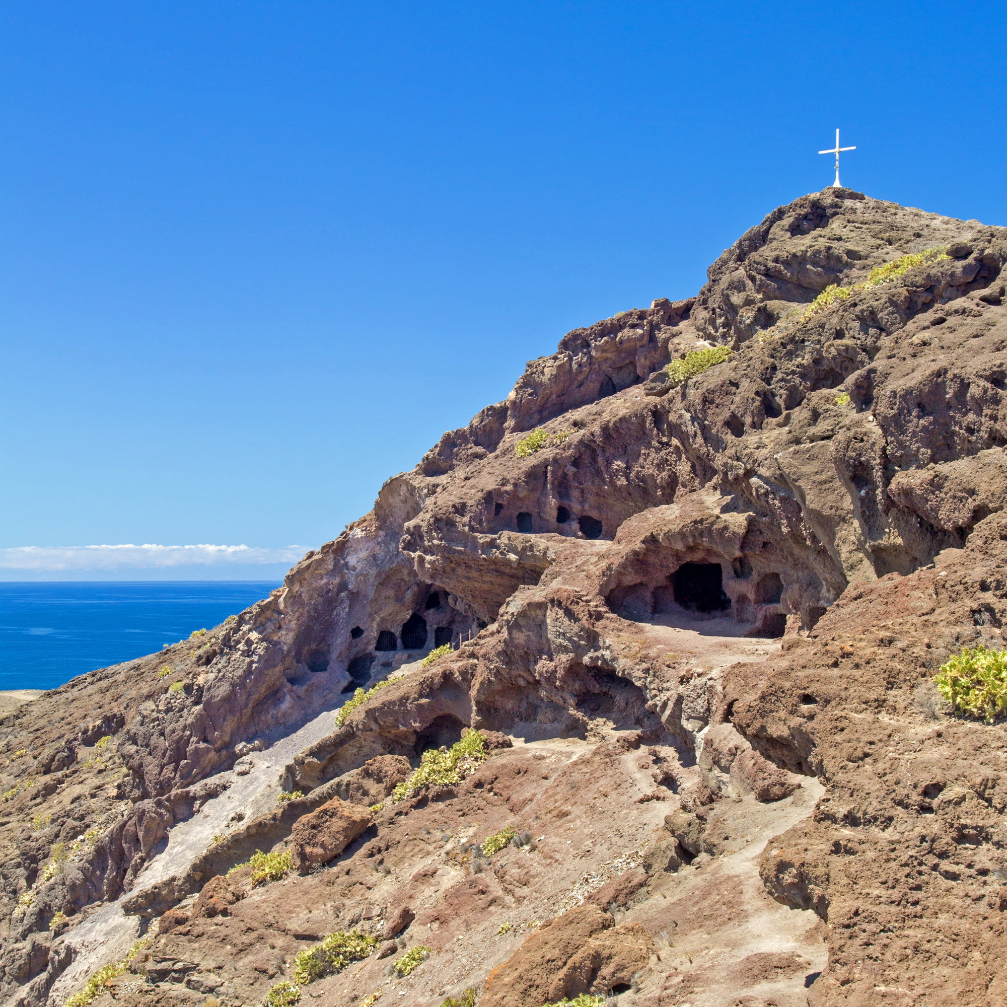 a group of caves La Cueva de los Canarios above El Confital Beach, aboriginal dwellings, Gran Canaria